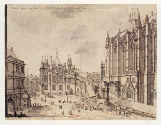 Veüe de la Chambre des Comptes, Et de la Ste Chapelle, Et d'une des portes du Palais de Paris